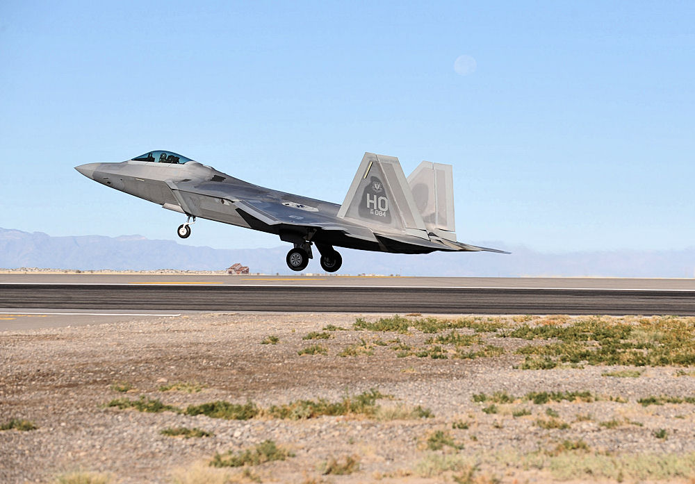 An F-22A Raptor assigned to the 49th Fighter Wing taxis down the runway here, Nov. 3, while Lockheed Martin videographers were here to document the F-22. (U.S. Air Force photo by Senior Airman Rachel Kocin)